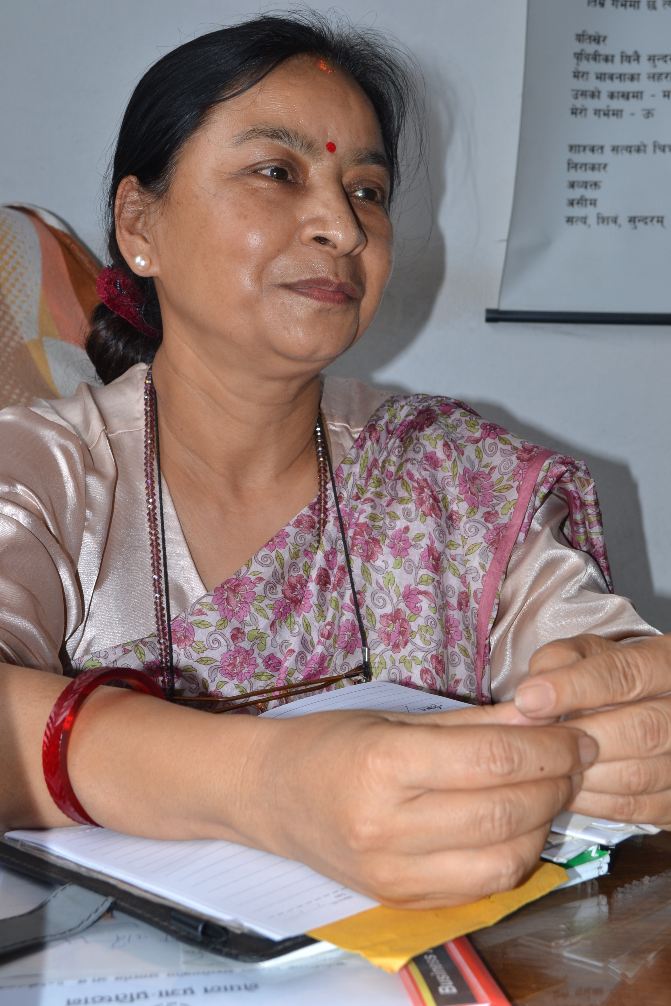 Sulochana manandhar at office